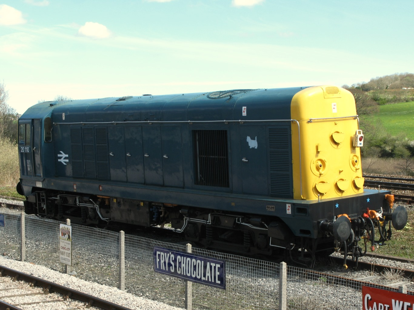 Preserved class 20 diesel 20110 at Totnes on the South Devon Railway, England.